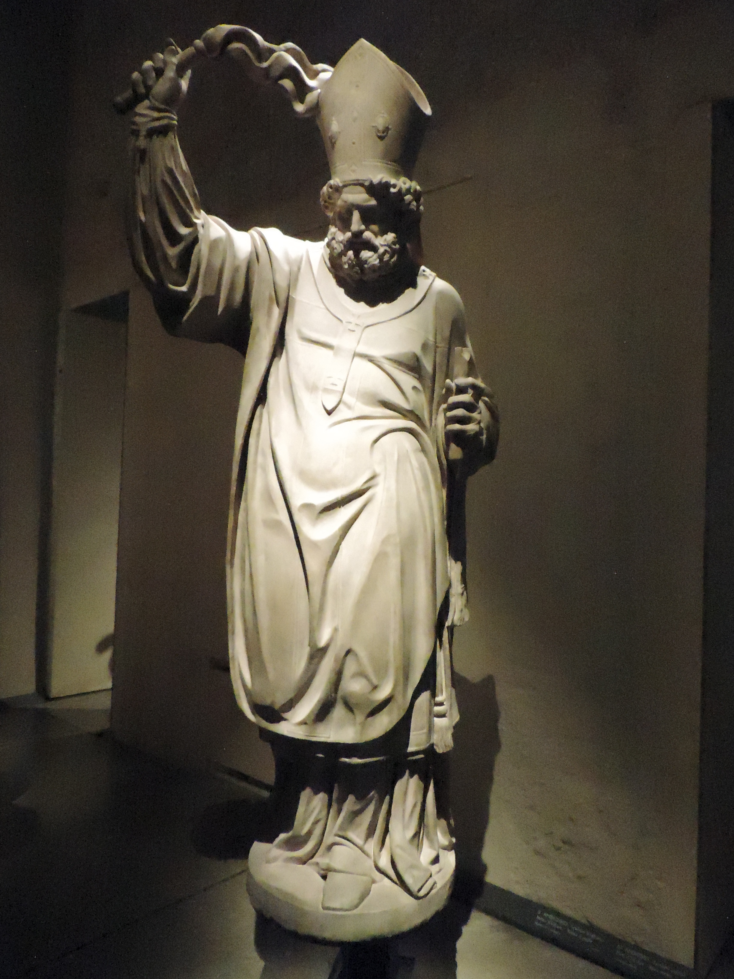 Statue of Saint Ambrose of Milan in Museo del Duomo - Milan. Author: Unknown Lombard author (early 17 century). Spire statue from Candoglia marble.